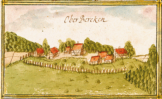 View of Oberberken, Schorndorf, from the forest register books created by Andreas Kieser